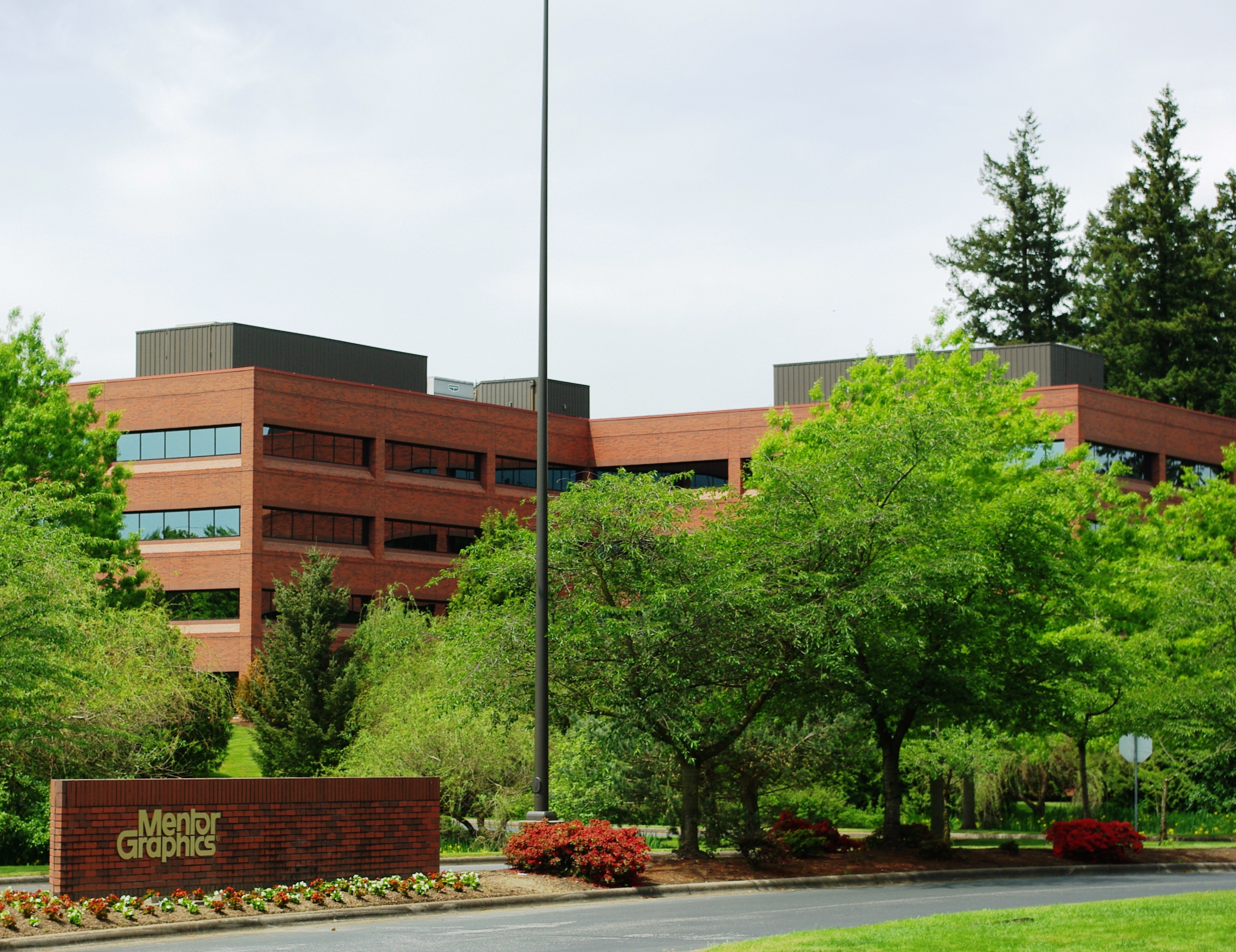 entrance to HQ of Mentor Graphics in Wilsonville, Oregon, USA